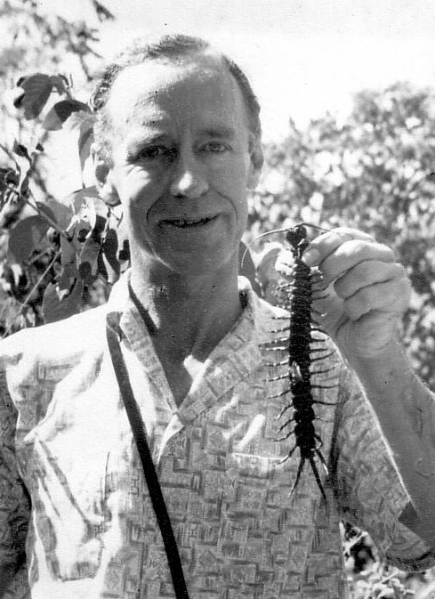 This photo was taken by my mother, Eleanor Hill, of my father Dr. "Ted" Hill, holding a medium-sized specimen of the Giant centipede, Scolopendra gigantea, in Trinidad in the 1950s. I have inherited